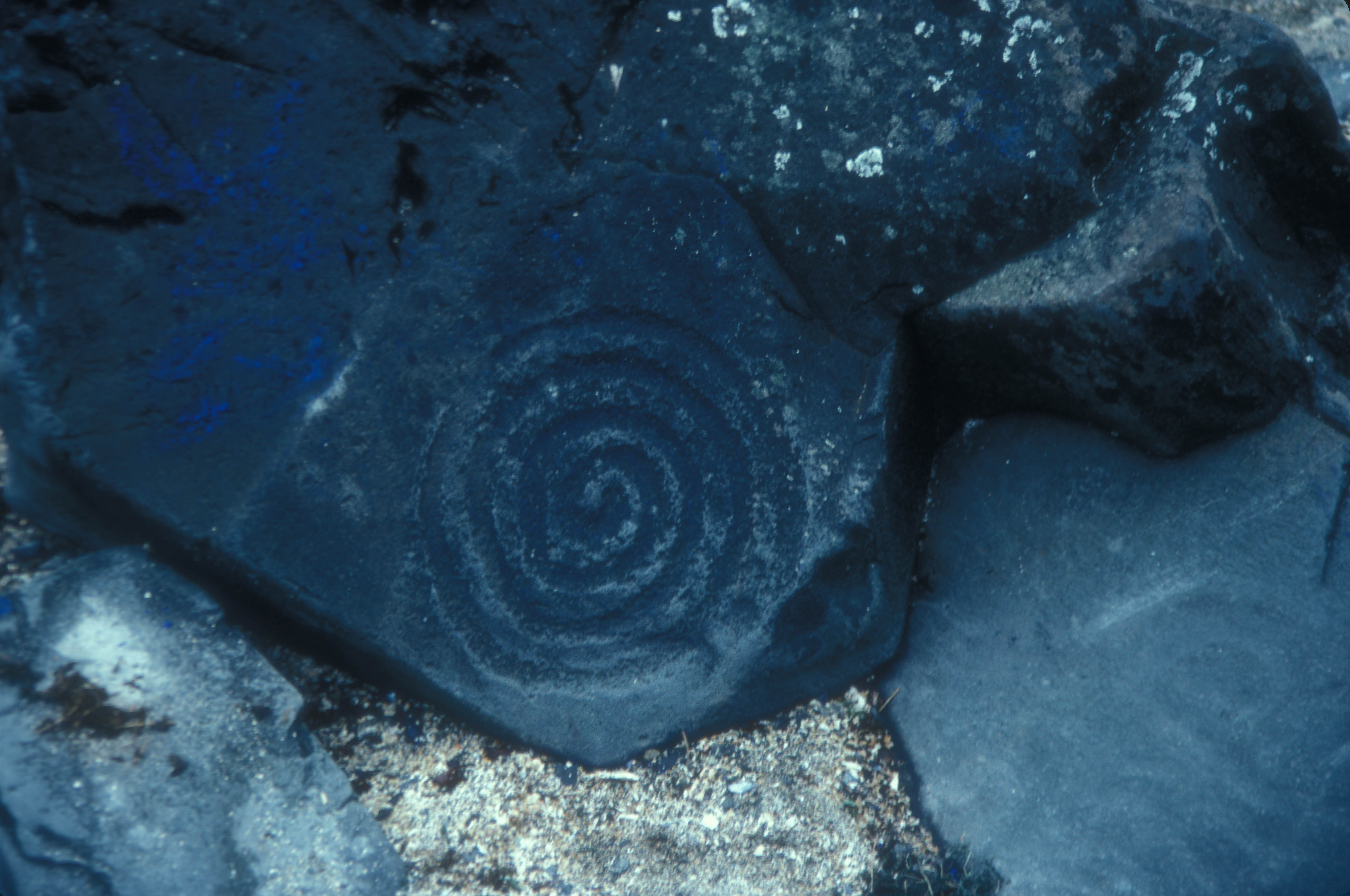 Petroglyphs at Petroglyph Beach State Historic Park, Wrangell, Alaska, USA. There are about 40 petroglyphs here. They are estimated to be about 8000 years old.